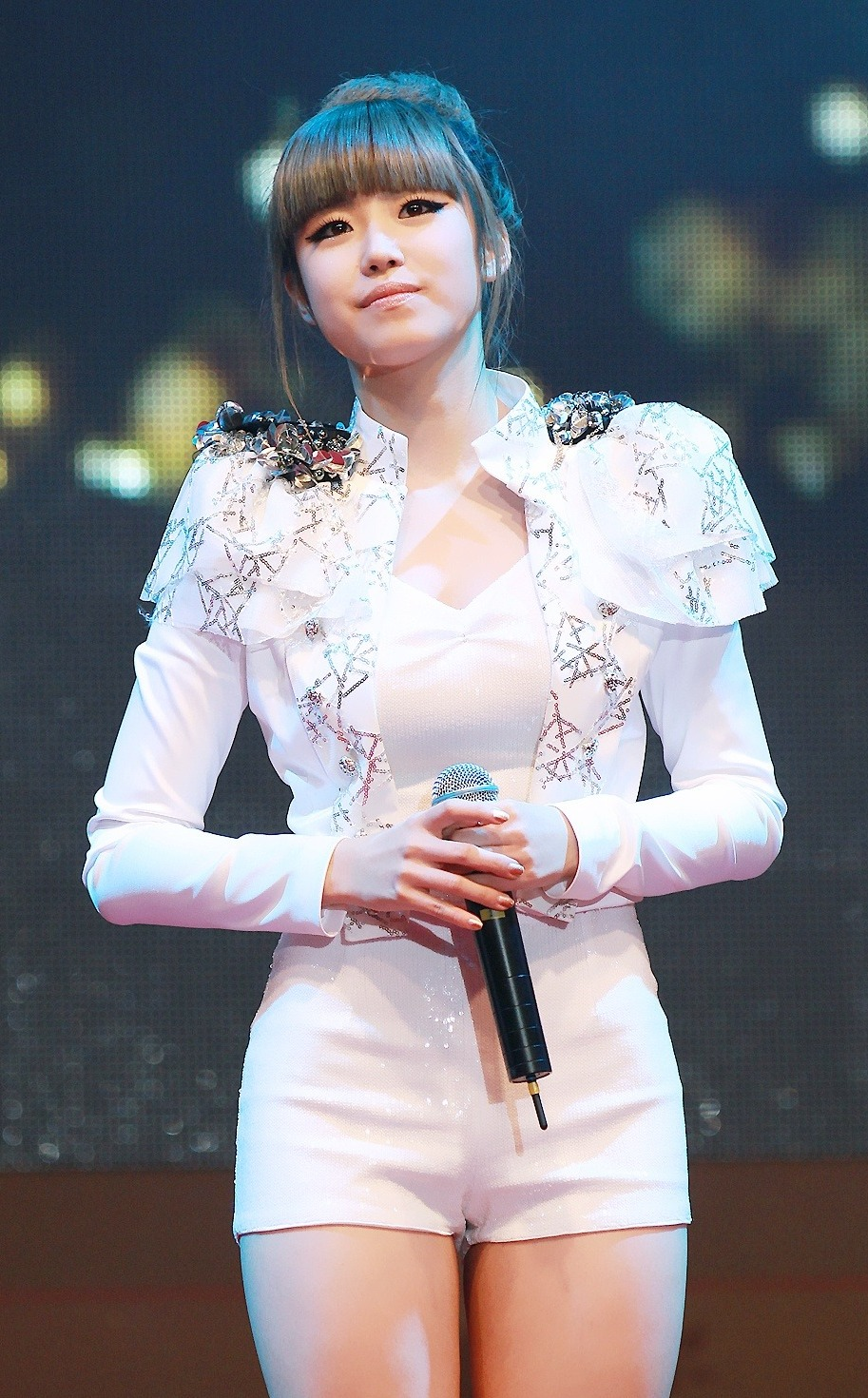 Hyosung at Lotte World Free Christmas, 17 December 2010